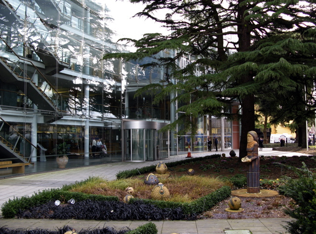 Fingal County Hall, Swords, Co.Dublin